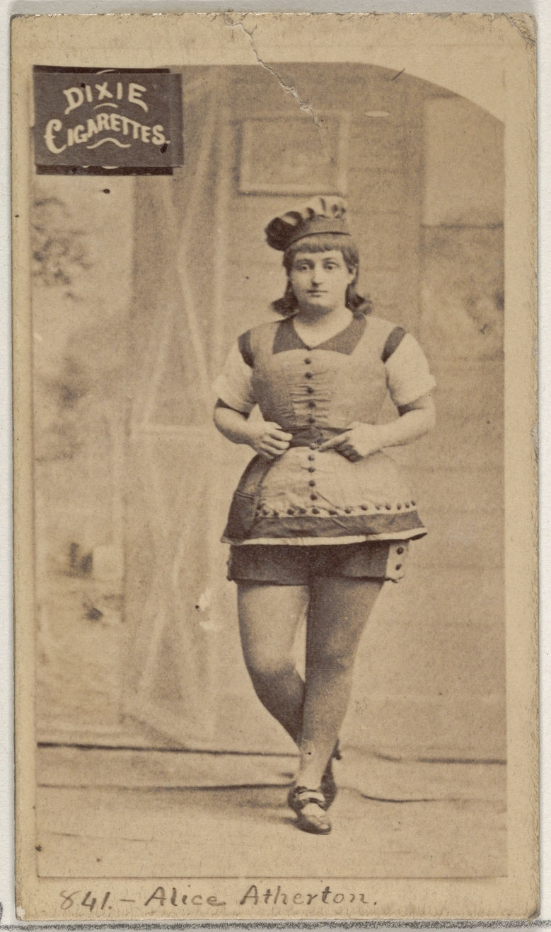 Photograph; Photographs/Ephemera